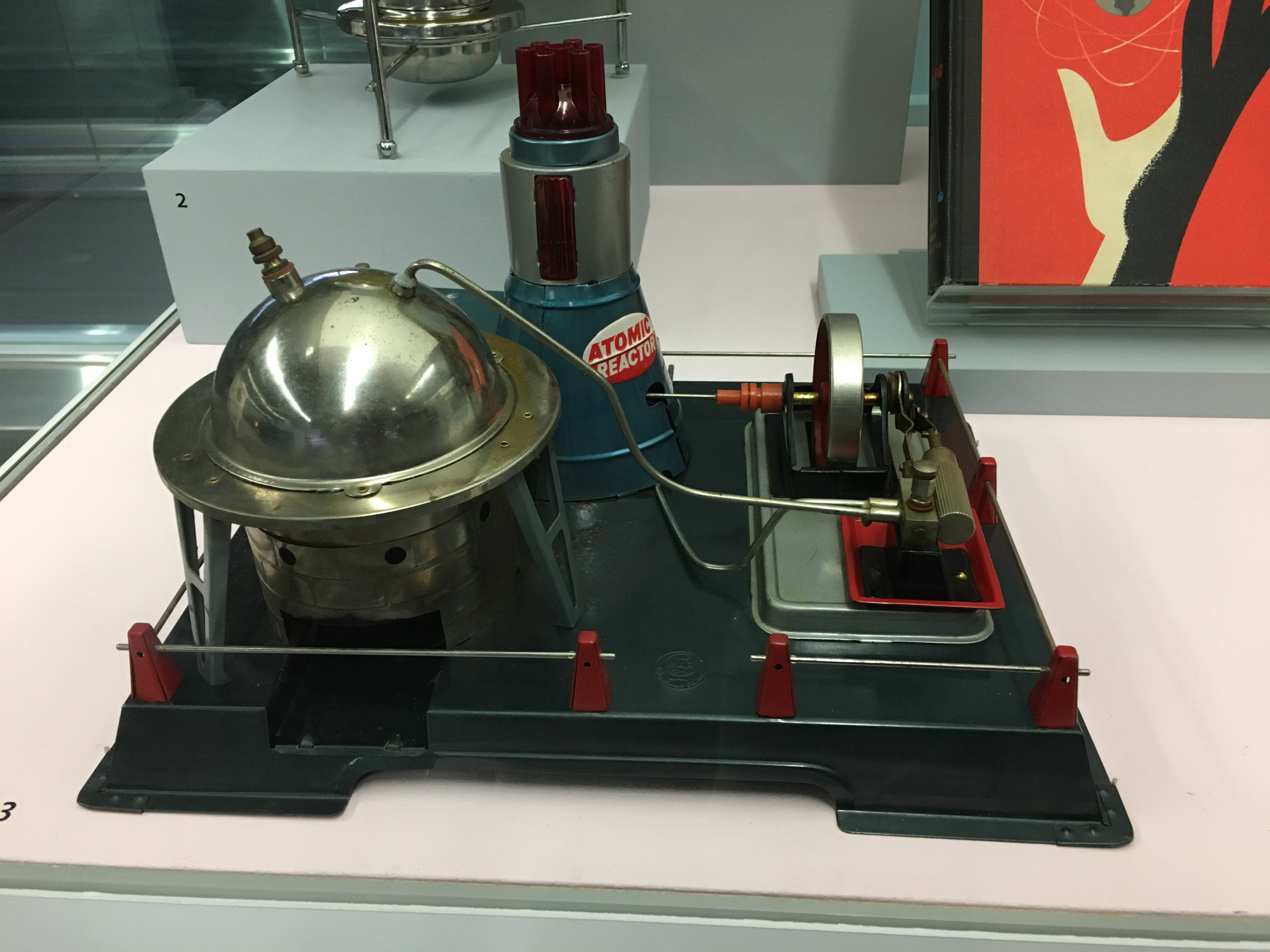 A toy manufactured by Linemar Toys in Japan in the 1950s, on display at the SFO Museum in San Francisco in 2018.